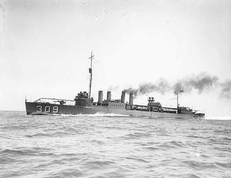 The U.S. Navy destroyer USS Woodbury (DD-309) steaming off San Diego, California (USA), circa 1923.